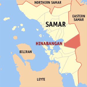 Map of Samar showing the location of Hinabangan